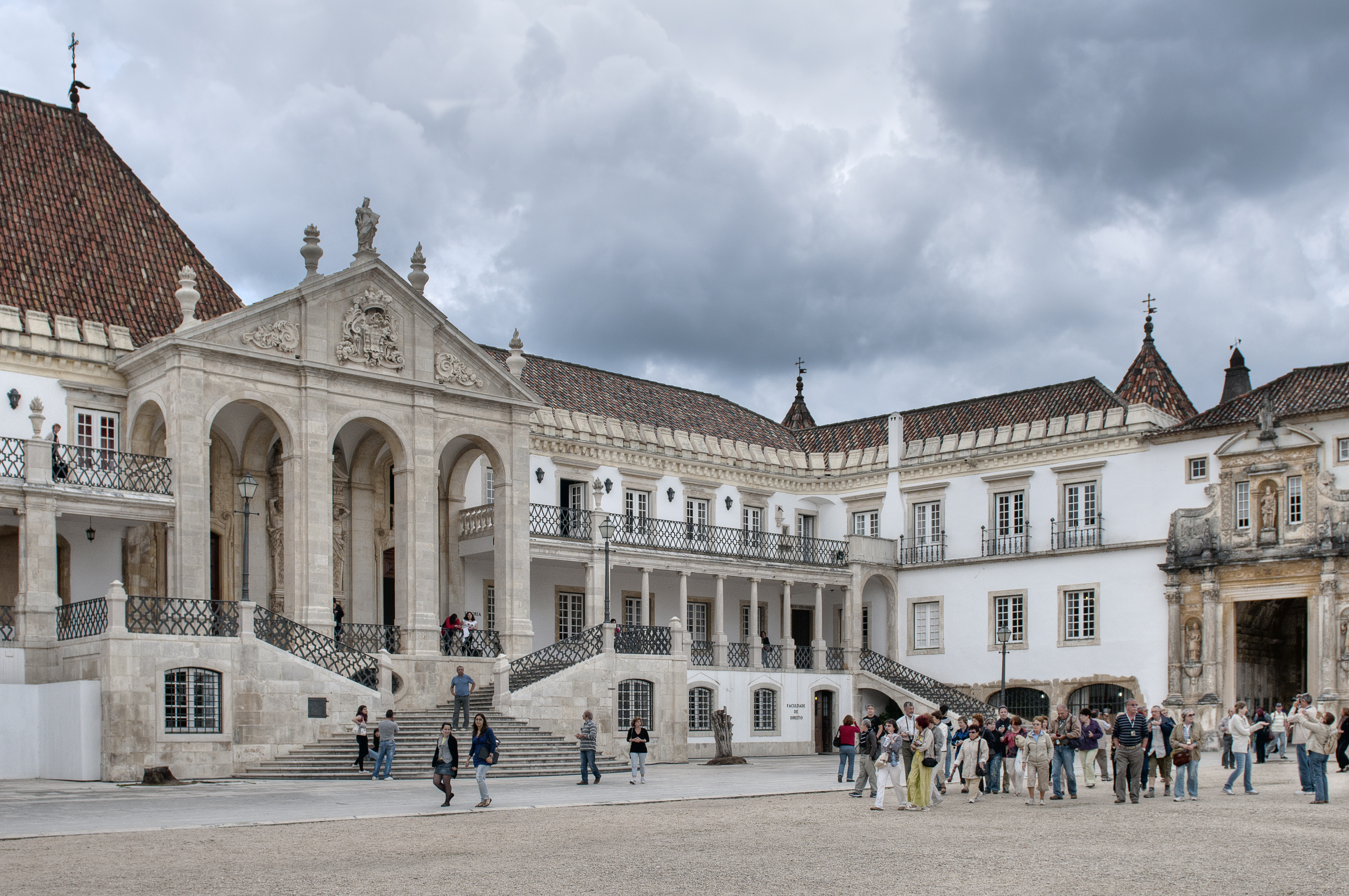 This is one of my shots of Coimbra University